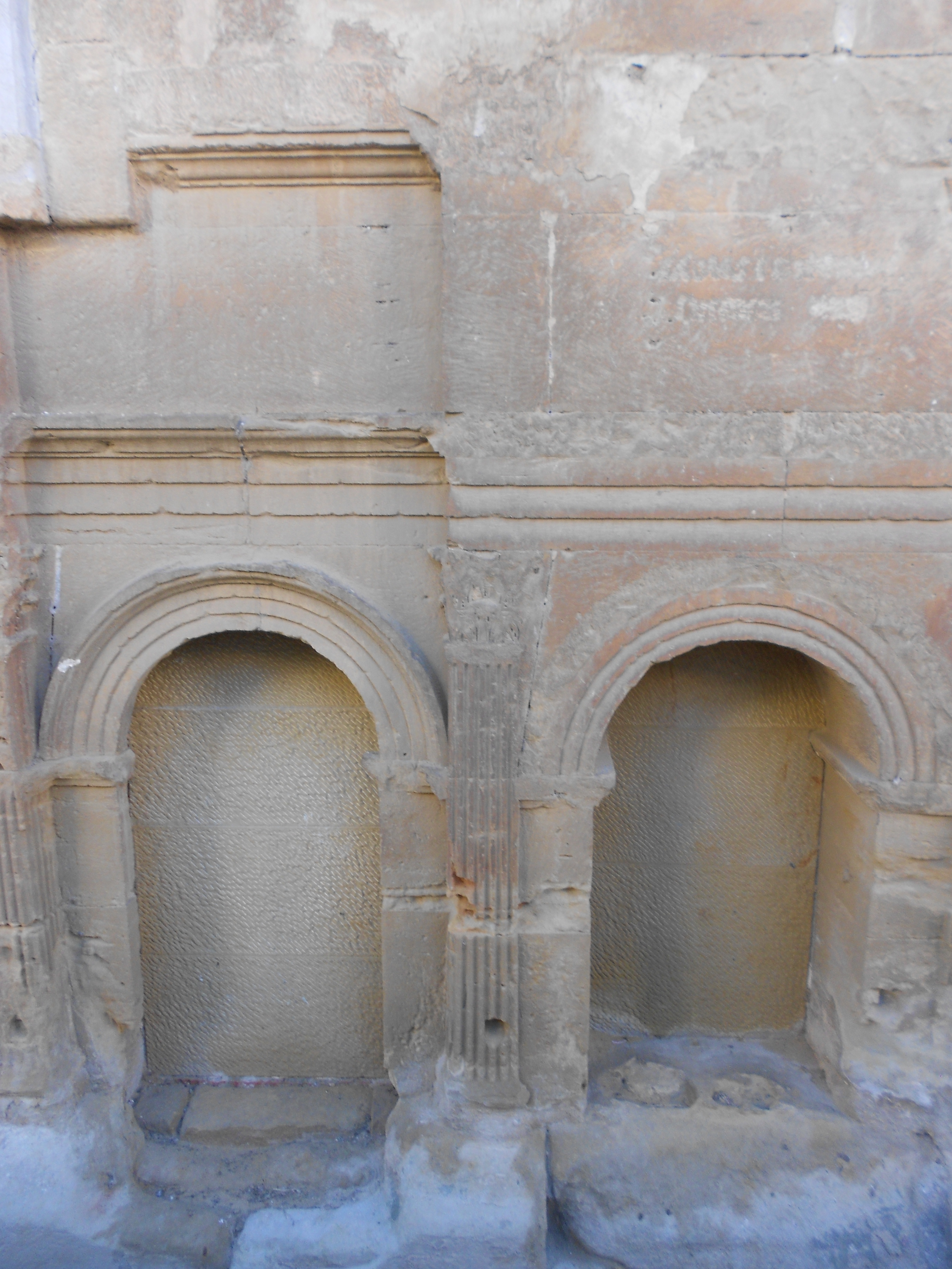 Roman mausoleum at Chiprana (Spain). It is integrated within the walls of the Consolación Hermitage.